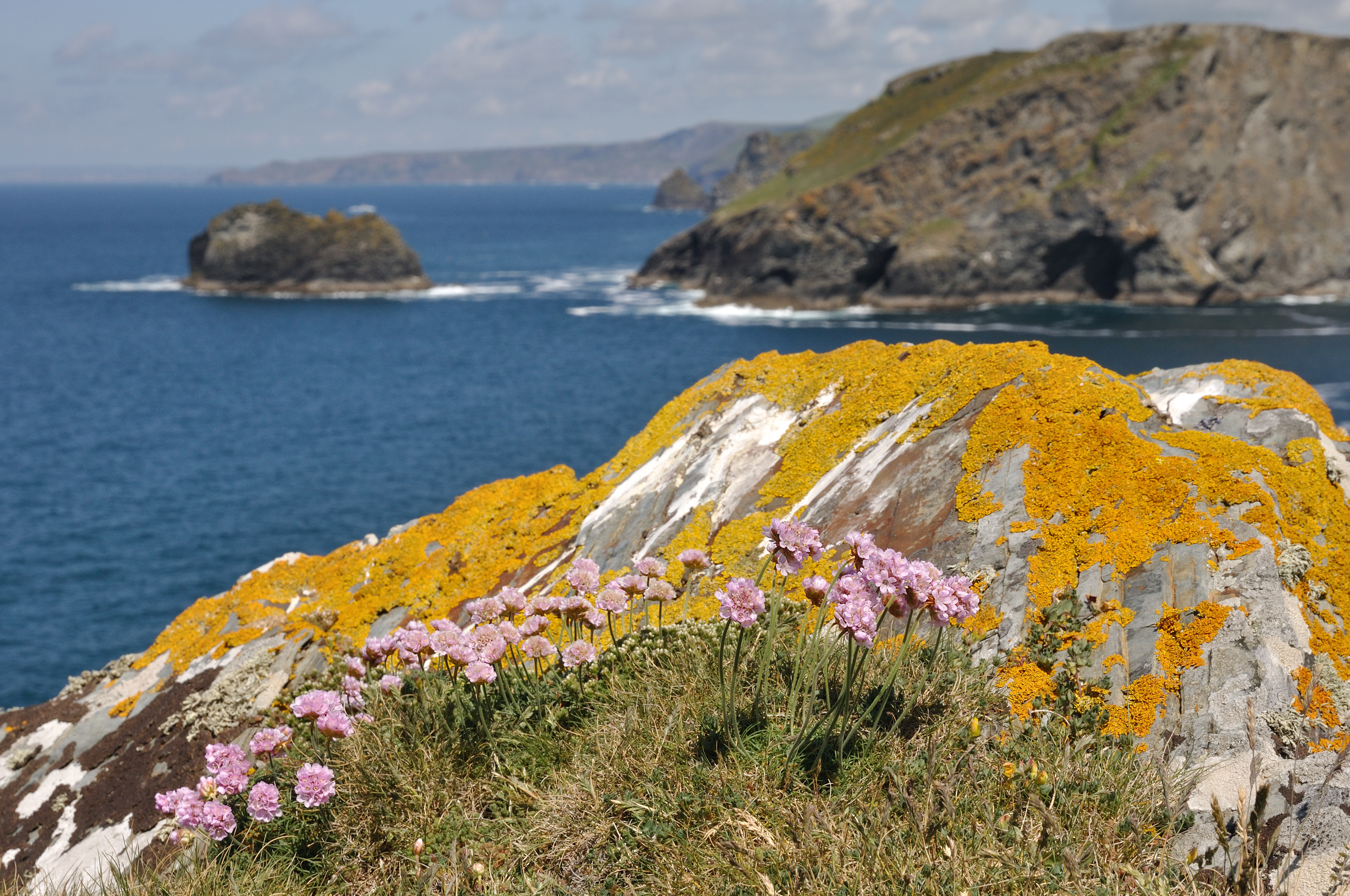 Lichen on rock, Tintagel, Cornwall, UK